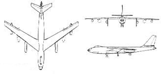 Three-view drawing of the proposed Boeing B-56A (aka B-47C) bomber.